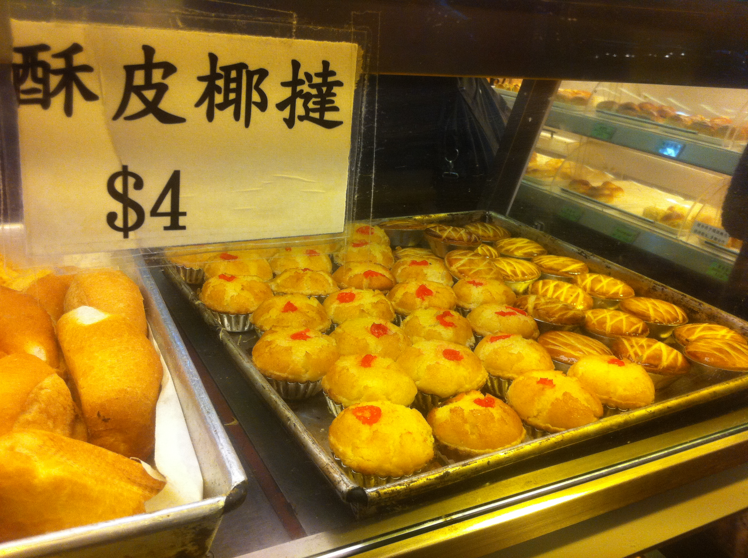 灣仔道 揶撻, Coconut of bakery shop in Wan Chai Road, Hong Kong